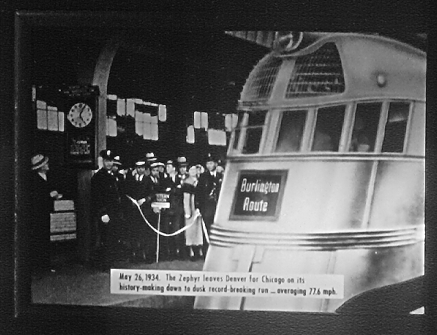 These first photos are from the display area inside the museum and at the entrance to the Zephyr which was outside. It is now inside in the basement of the new parking garage.